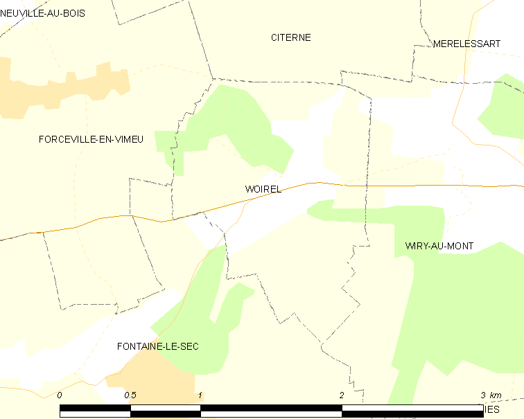 Map of French municipality Woirel